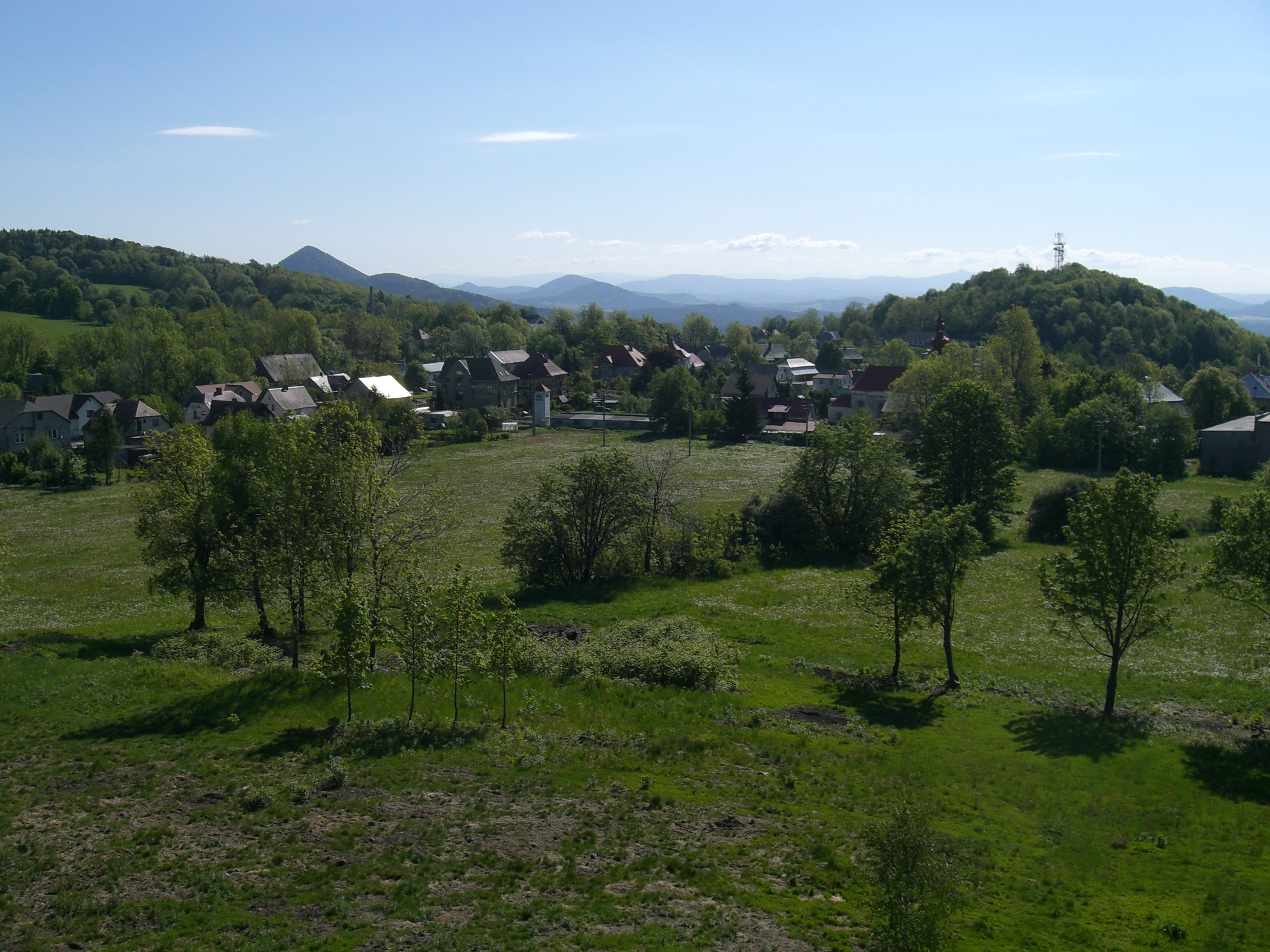 Town Kamenický Šenov, Czech Republic.